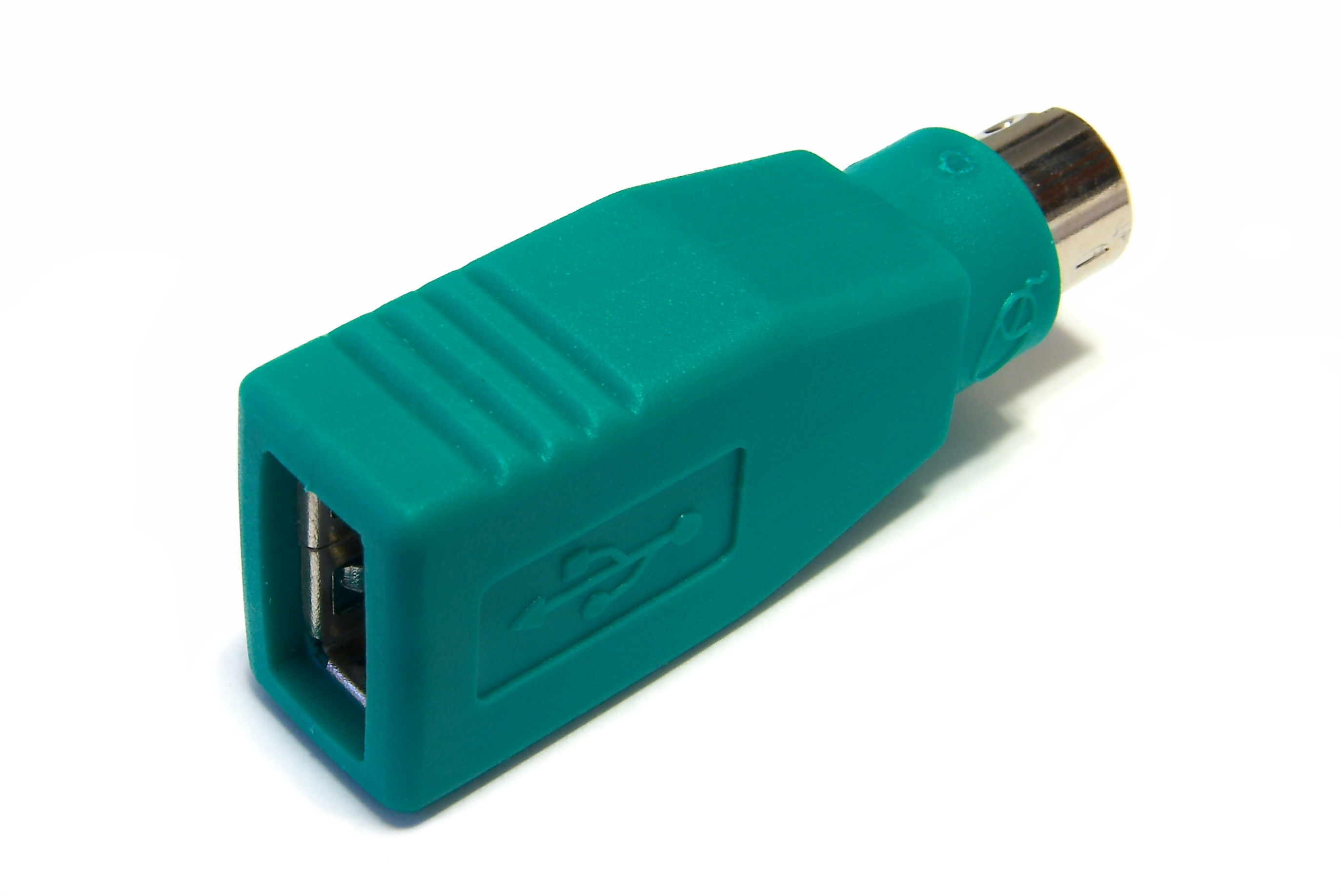 USB to PS/2 mouse adapter